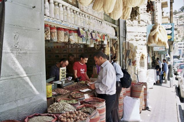 For more pictures and videos of Jordan, please visit here. Medecine stalls in a market in downtown Amman